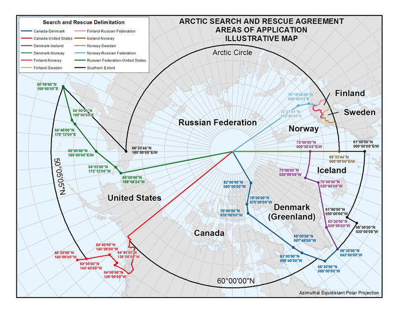 Map illustrating the areas of search and rescue assigned to each coastal country in the Arctic. The map illustrates the decisions reached in the treaty Agreement on Cooperation on Aeronautical and Maritime Search and Rescue in the Arctic, under the auspices of the Arctic Council. It was signed May 12, 2011 in the Arctic Council Nuuk Ministerial Meeting.